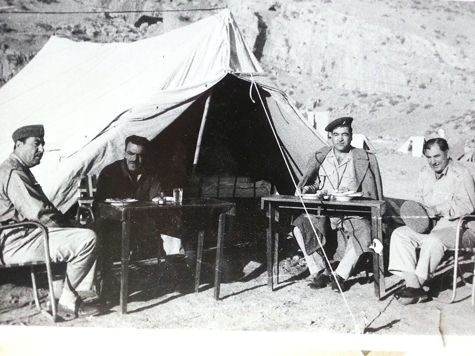 Khaleel Jassim Al-Dabbagh the commander of Jash special forces, first on the right with Ibrahim Al-Ansari commander of second division in north Iraq during military operations in 60's.